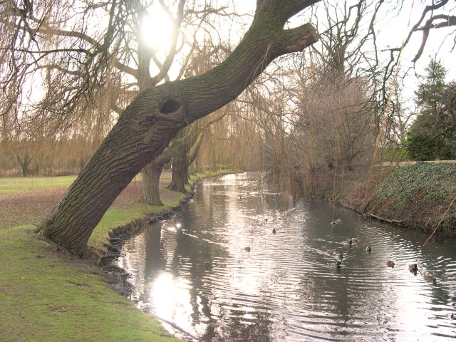 Bourne Memorial Gardens. Part of Bourne War Memorial Garden. The bank to the right is the base of the curtain wall of Bourne Castle's inner bailey. As the inner bailey moat, this water was three times this width. It remains now, as it was also the castle's mill pool and the mill's usefulness outlived that of the castle. This photo was taken on Christmas Day 2003.